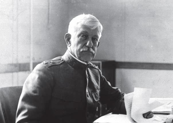 Maj. Gen. William C. Gorgas, Surgeon General of the US Army during World War I